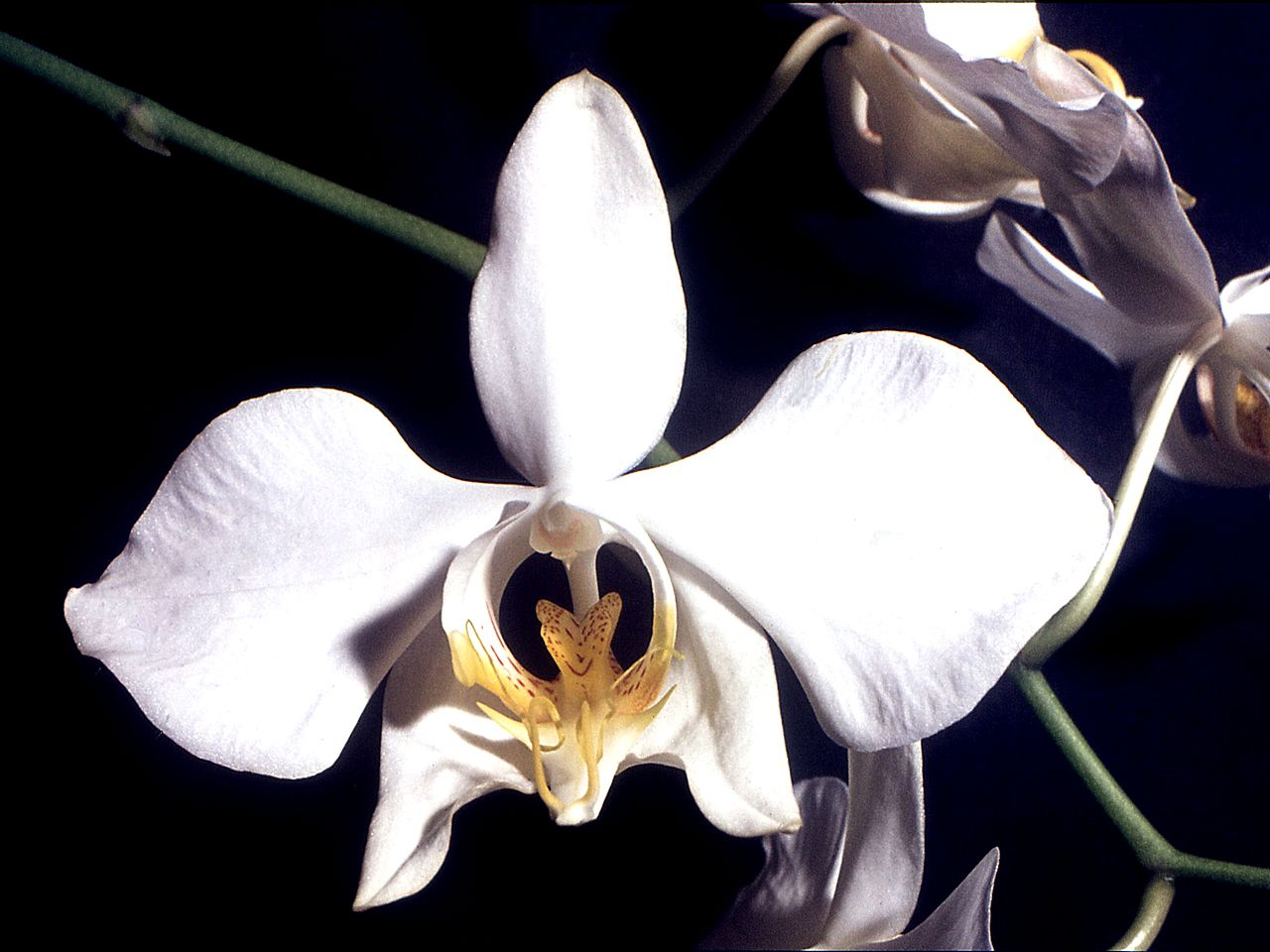 Phalaenopsis amabilis - flower